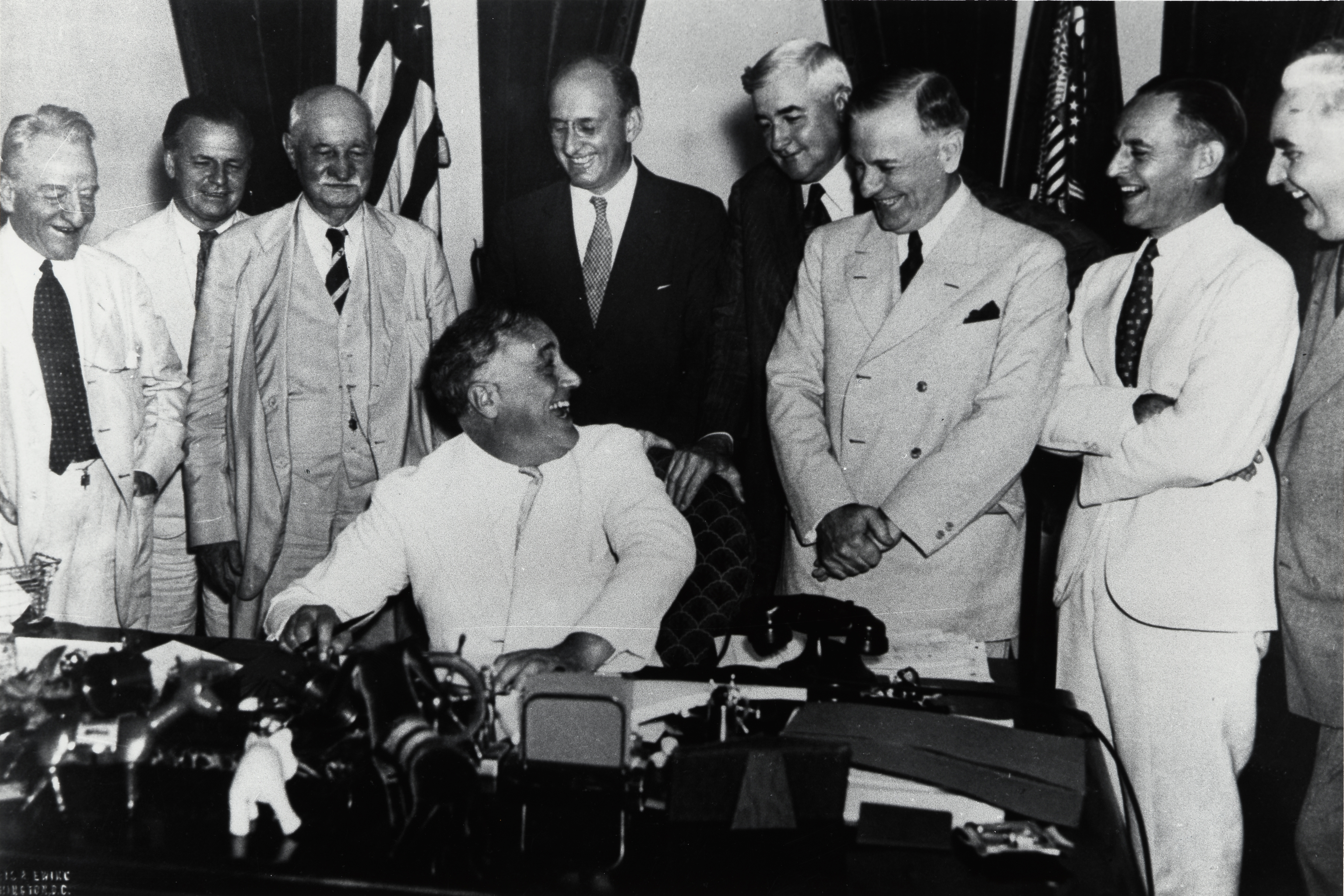 The Banking Act of 1935 was signed by President Roosevelt on August 23, completed the restructuring of the Federal Reserve and financial system begun during the Hoover administration and continued during the Roosevelt administration. Photo Credit: Harris & Ewing